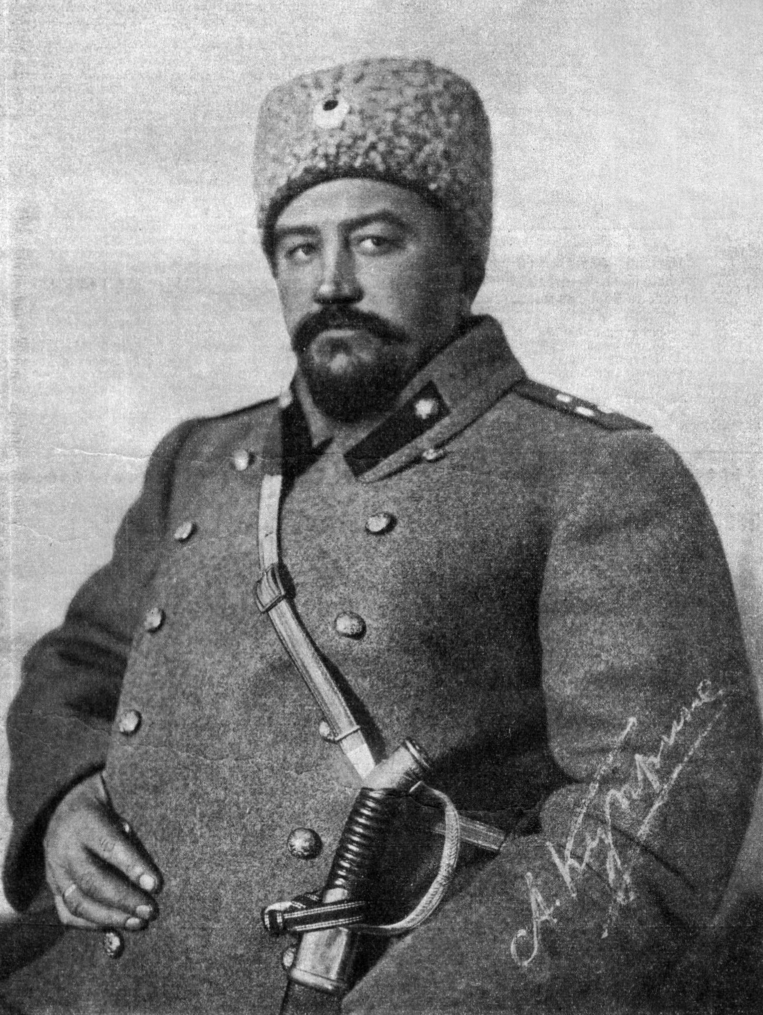 Kuprin, Aleksandr Ivanivich